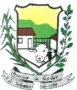 City seal Surubim-PE